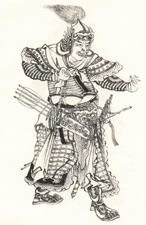 郭英，明朝军事将领。